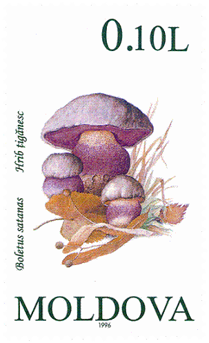 Boletus satanas depicted on a stamp of Moldova